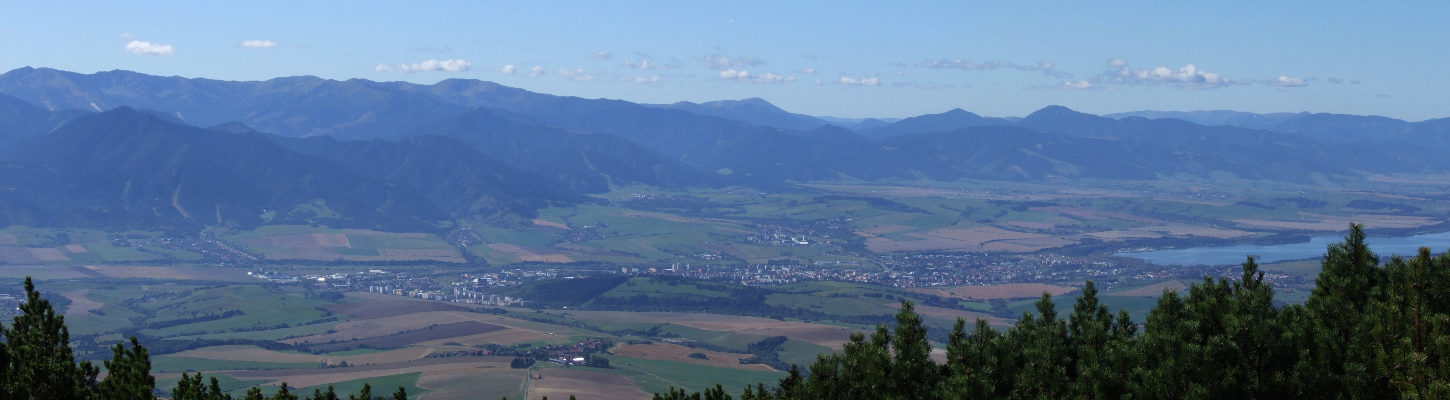 Liptovská kotlina from the route to Baranec